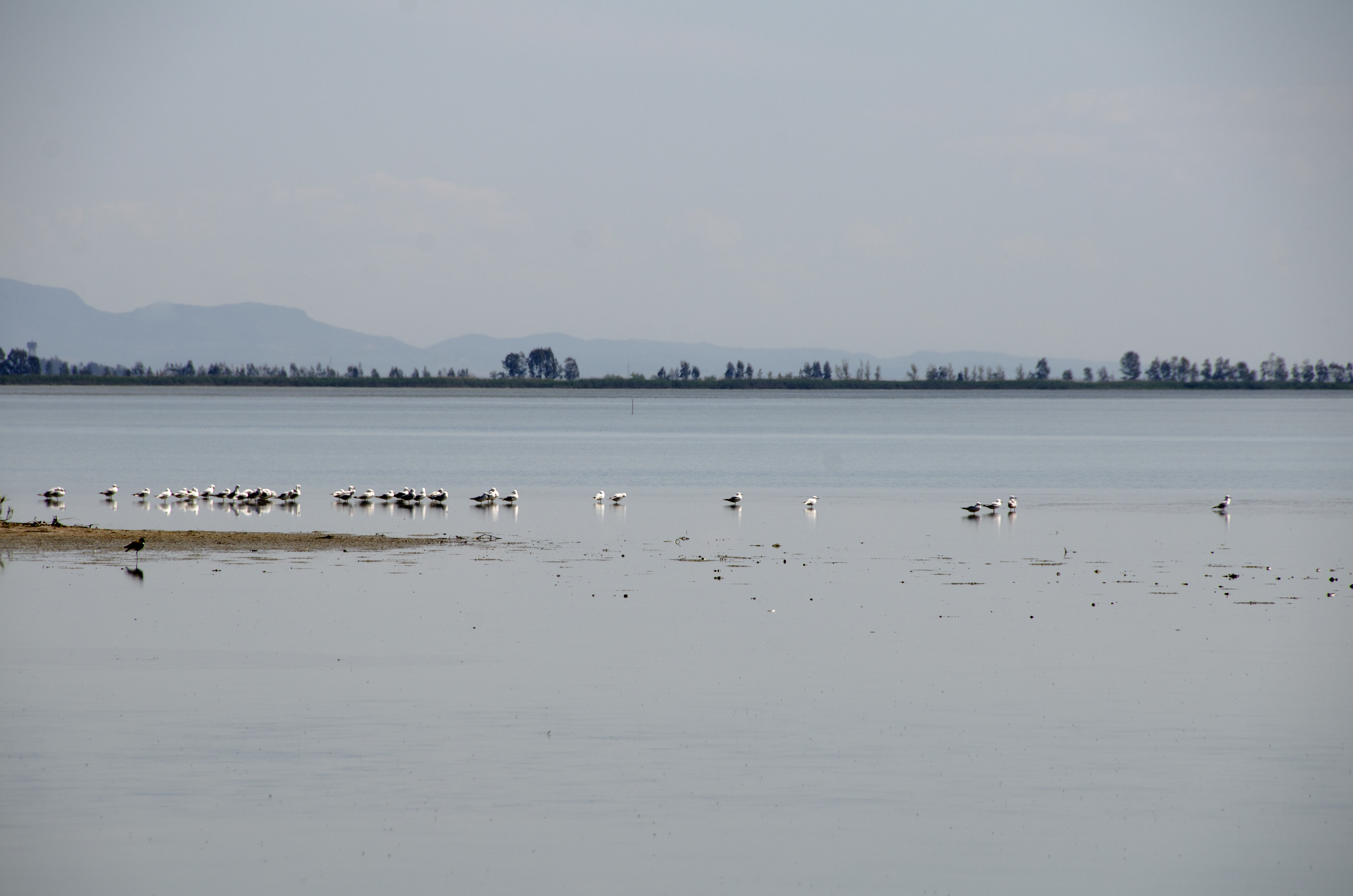 A partial view of Akyatan Lagoon in Karataş, Adana - Turkey.